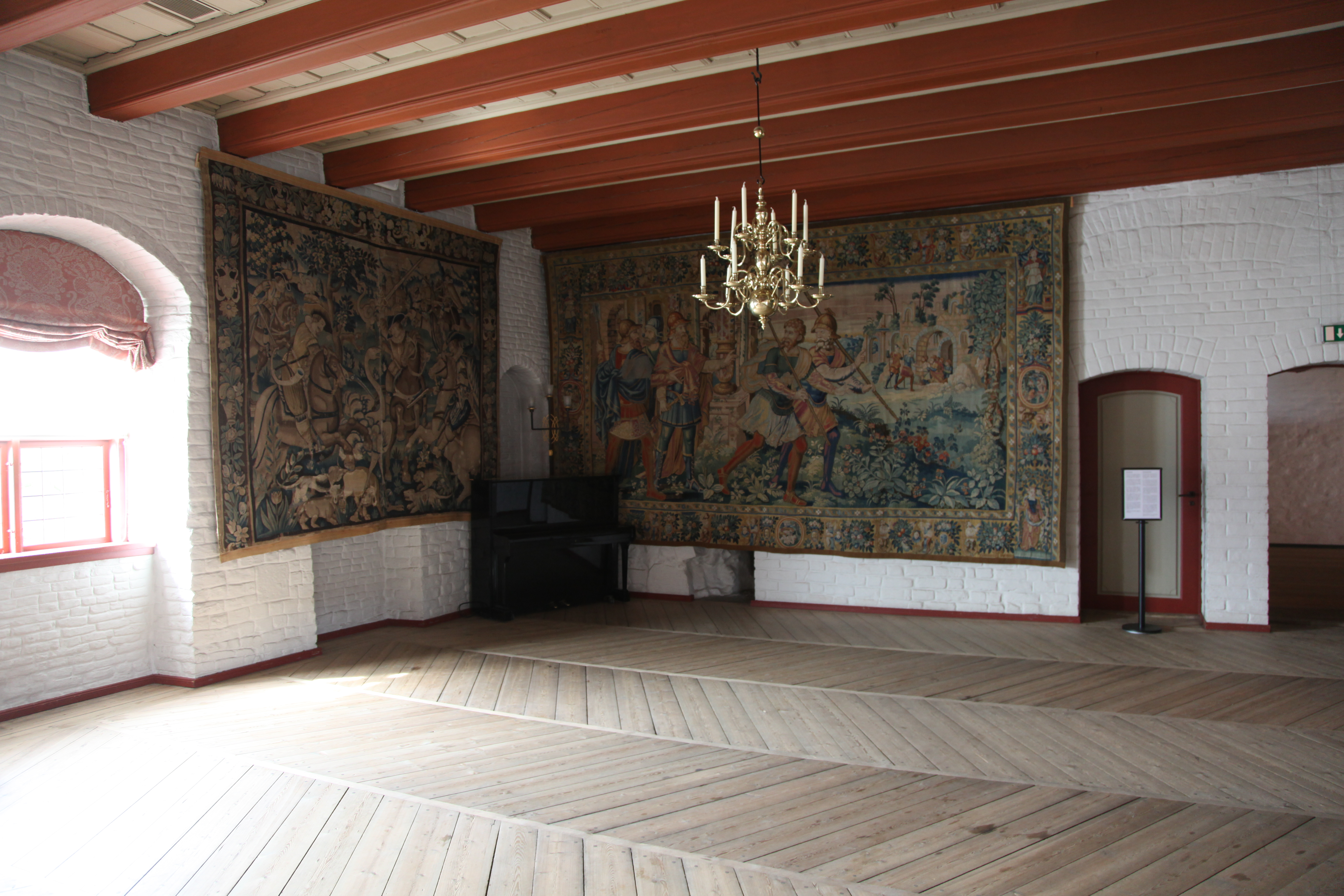 Akershus Castle. The Romerike Hall.